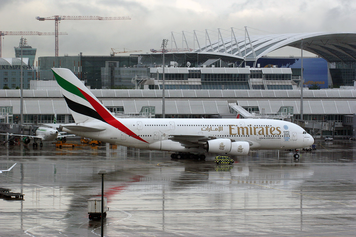 Munich (EDDM/MUC) Airport